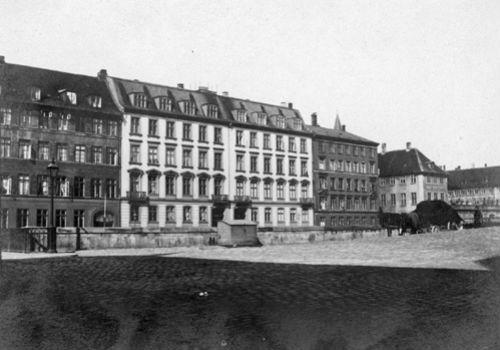 Frederiksholms Kanal in Copenhagen, Denmark1899